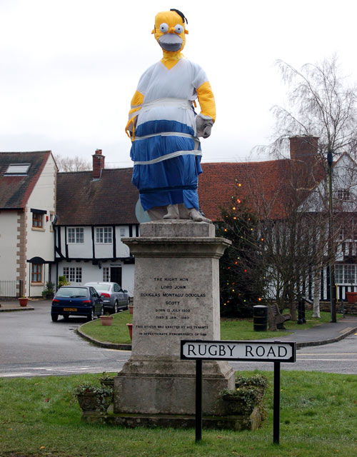 Dunchurch statue fancy dress 2009 / 10 Every Christmas, the villagers in Dunchurch decorate the statue on the village green. This year, the statue of Lord (John) Scott is decorated as Homer Simpson. See also [1], 1100709, and 1306598.